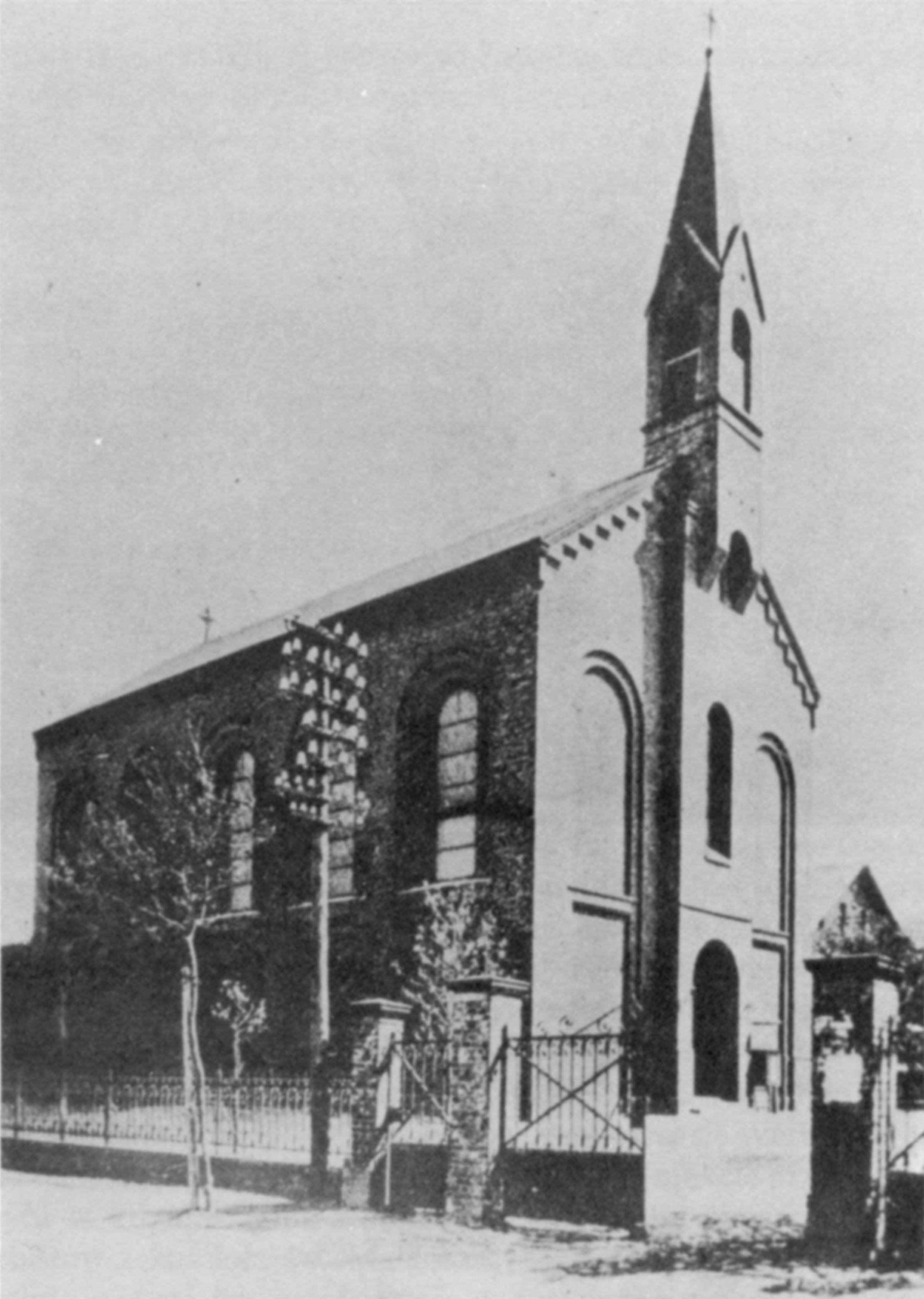 The non-existent St. Joseph Roman Catholic church, projected by Paul Jackisch, built in 1885, demolished in 1934, in mining estate of Otylia mine in Schwarzwald (Polish: Czarny Las) in Beuthen (now Bytom), near Zgoda in Świętochłowice.